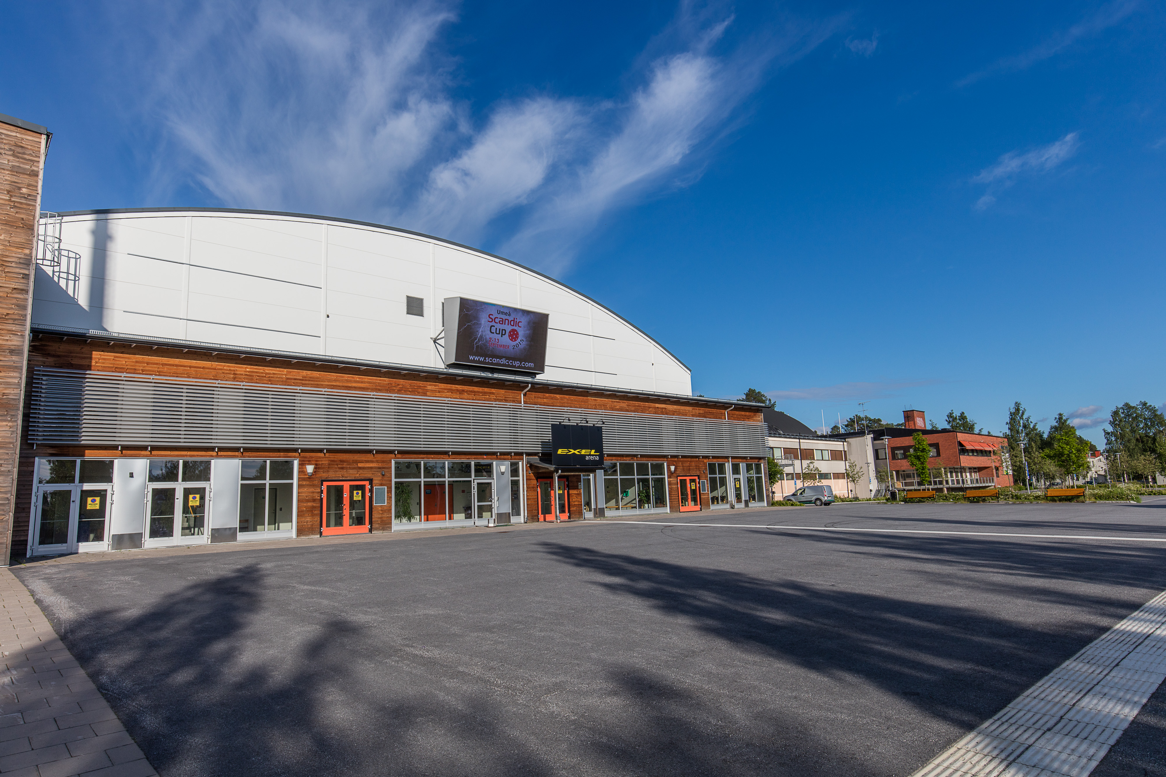 Umeå Energi Arena Vind (formerly Exel Arena) is a sports facility with two floor ball courts.